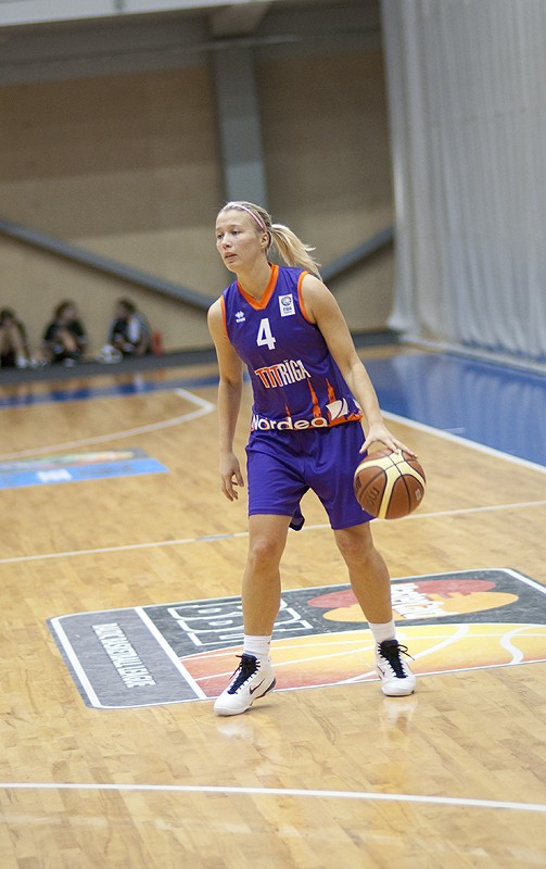 Anda Eibele